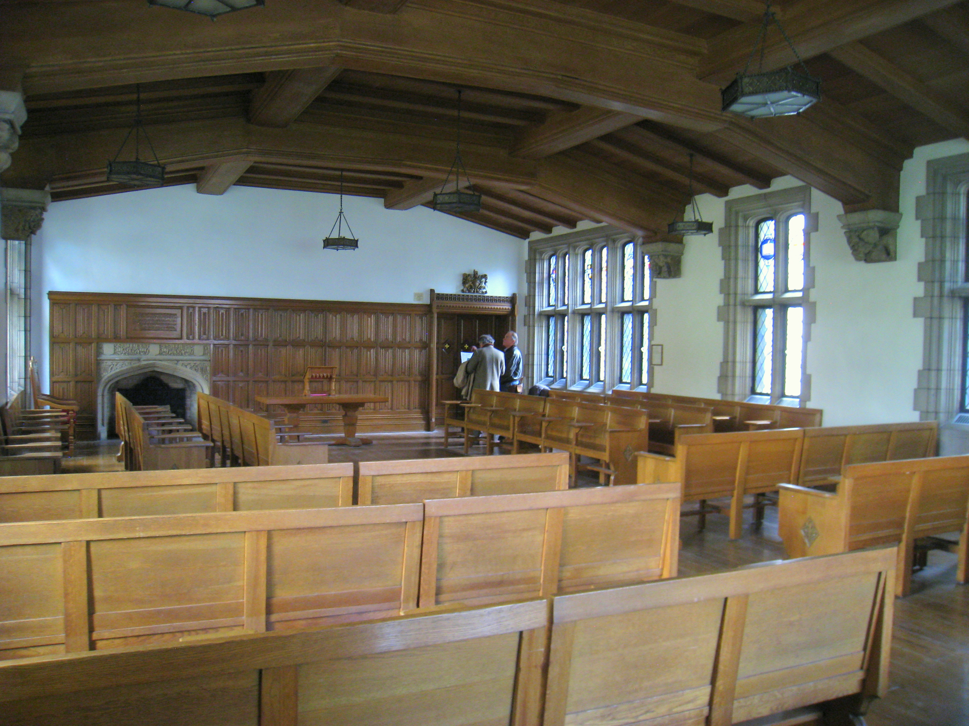 English Room, Cathedral of Learning, University of Pittsburgh, Pittsburgh, Pennsylvania, USA.